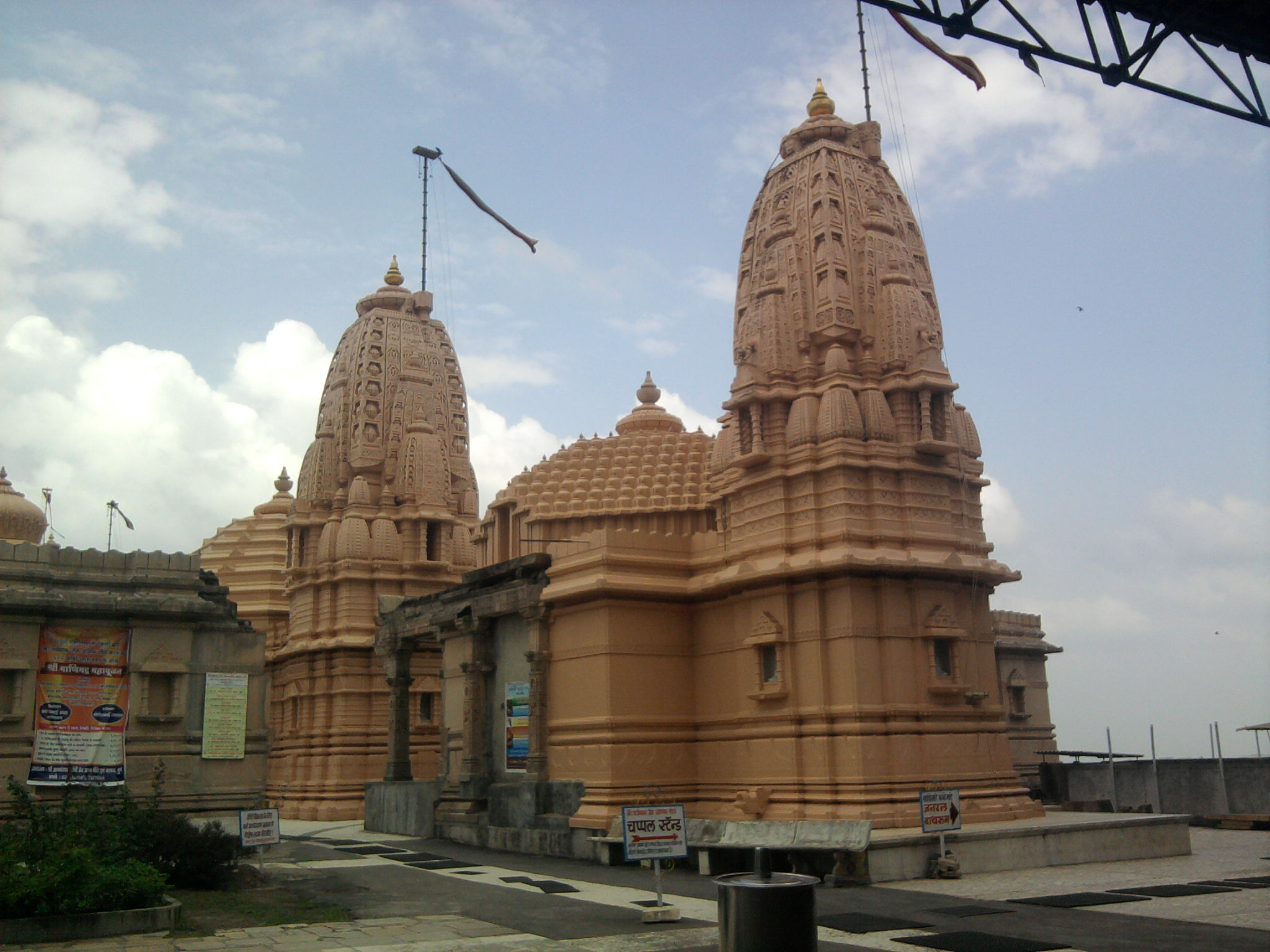 Katraj jain temple in Pune